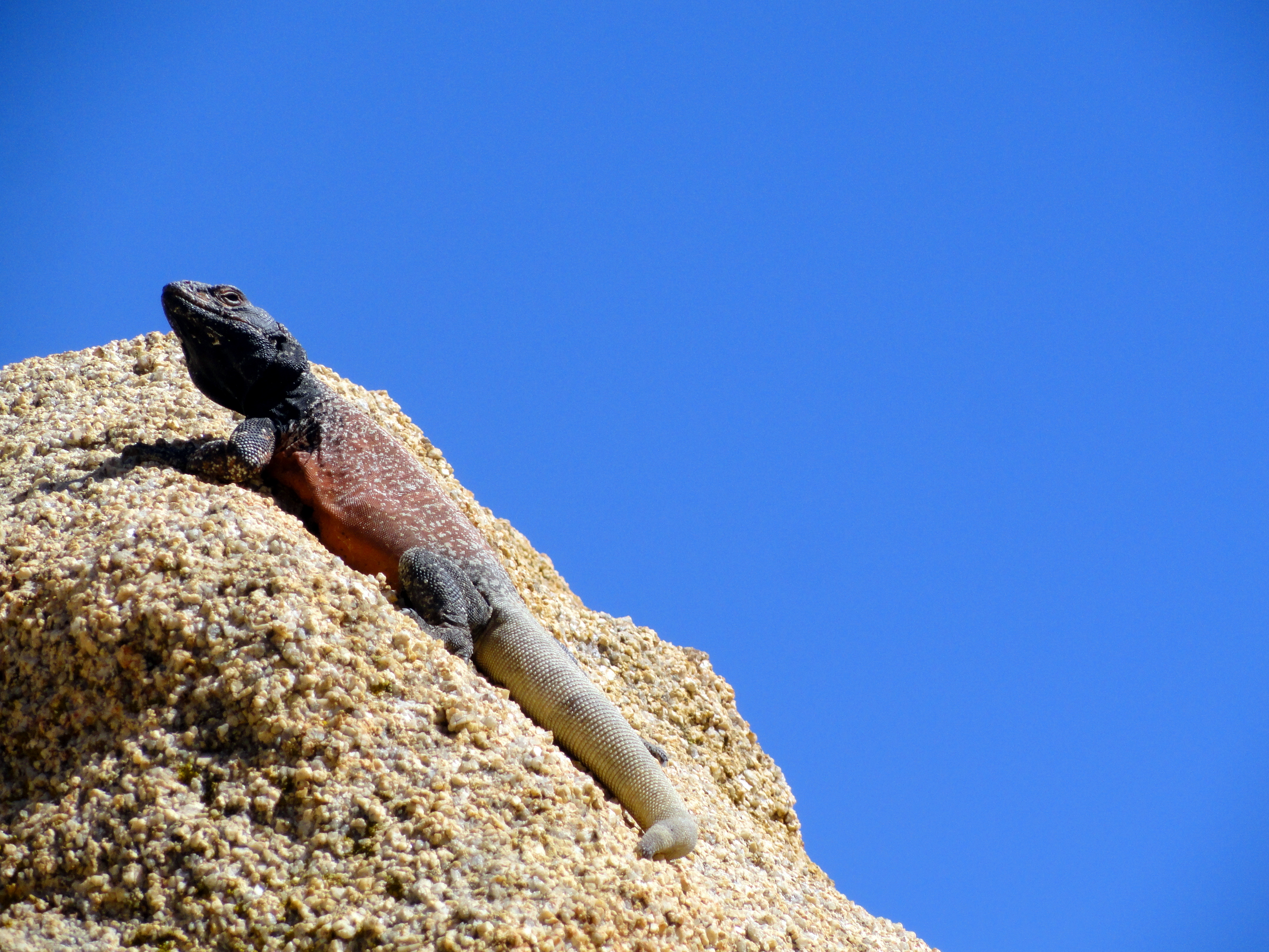 A large male Common Chuckwalla is basking on a rock in Joshua Tree National Park, California, USA.